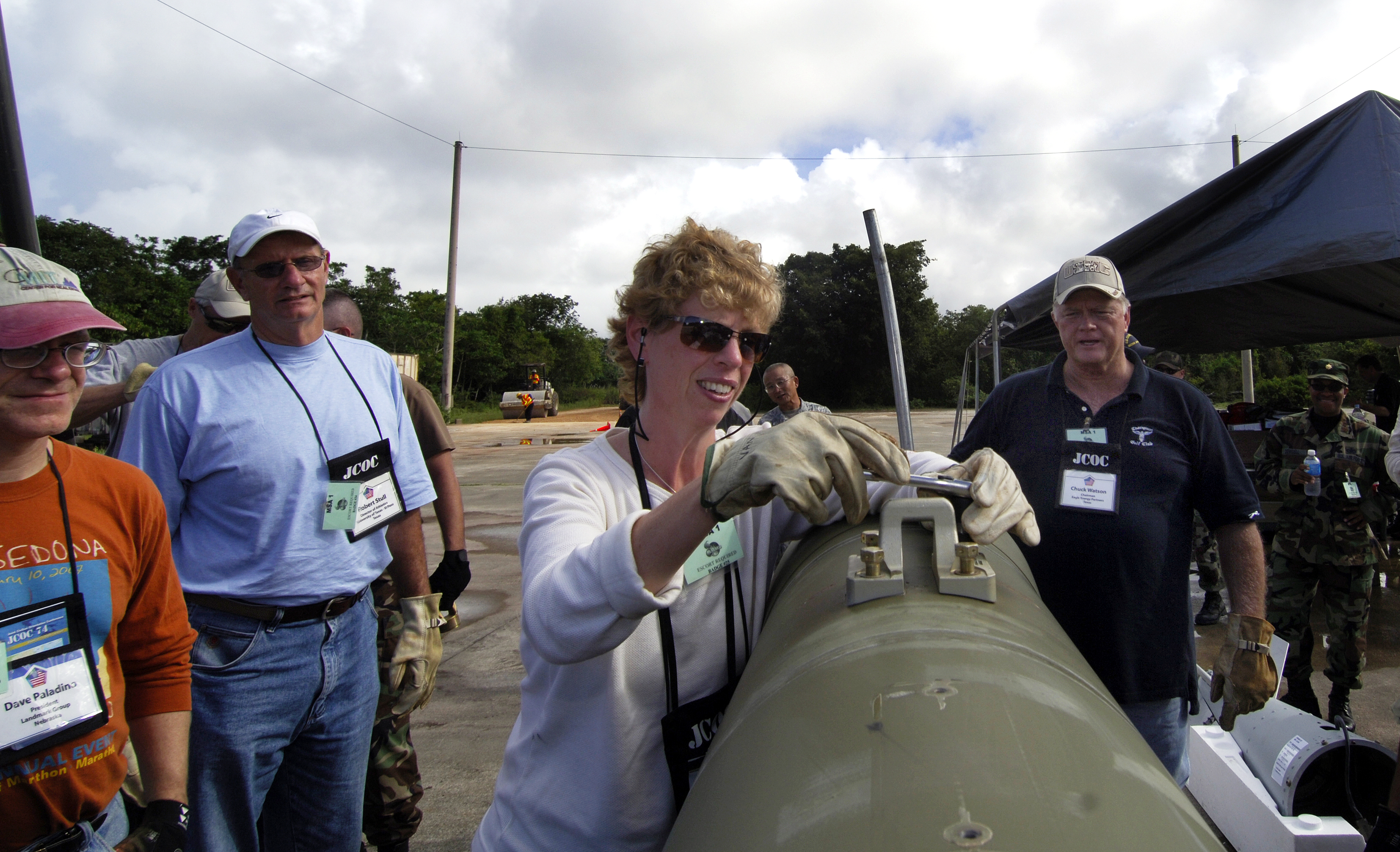 Marilyn F. Romano, publisher of the Fairbanks Daily News-Miner, Fairbanks, Alaska, tightens bracket bolts on a GBU-50 bomb as part of the munitions orientation during the 74th Joint Civilian Orientation Conference held on Andersen Air Force Base, Guam, Nov. 6, 2007. Defense Dept. photo by